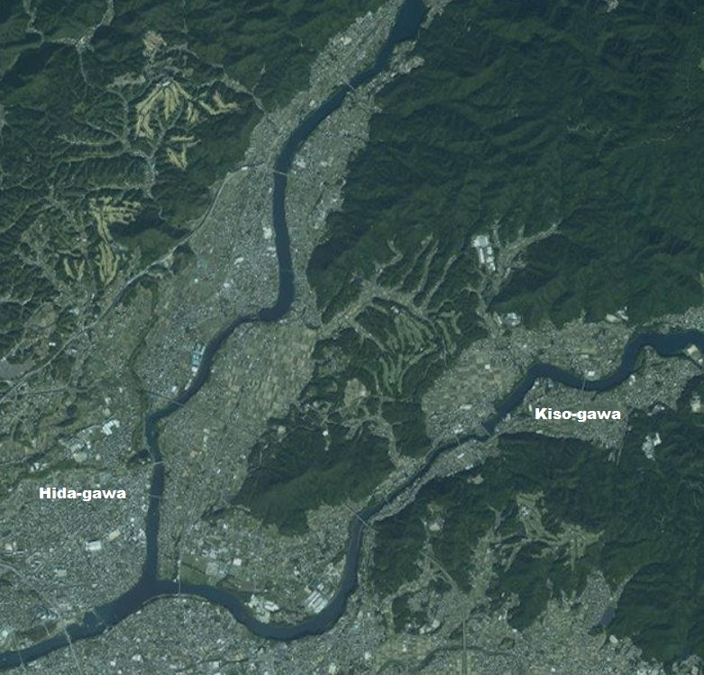 Aerial view of the confluence point of the Hida and Kiso river, in Minokamo (Gifu prefecture, Japan).